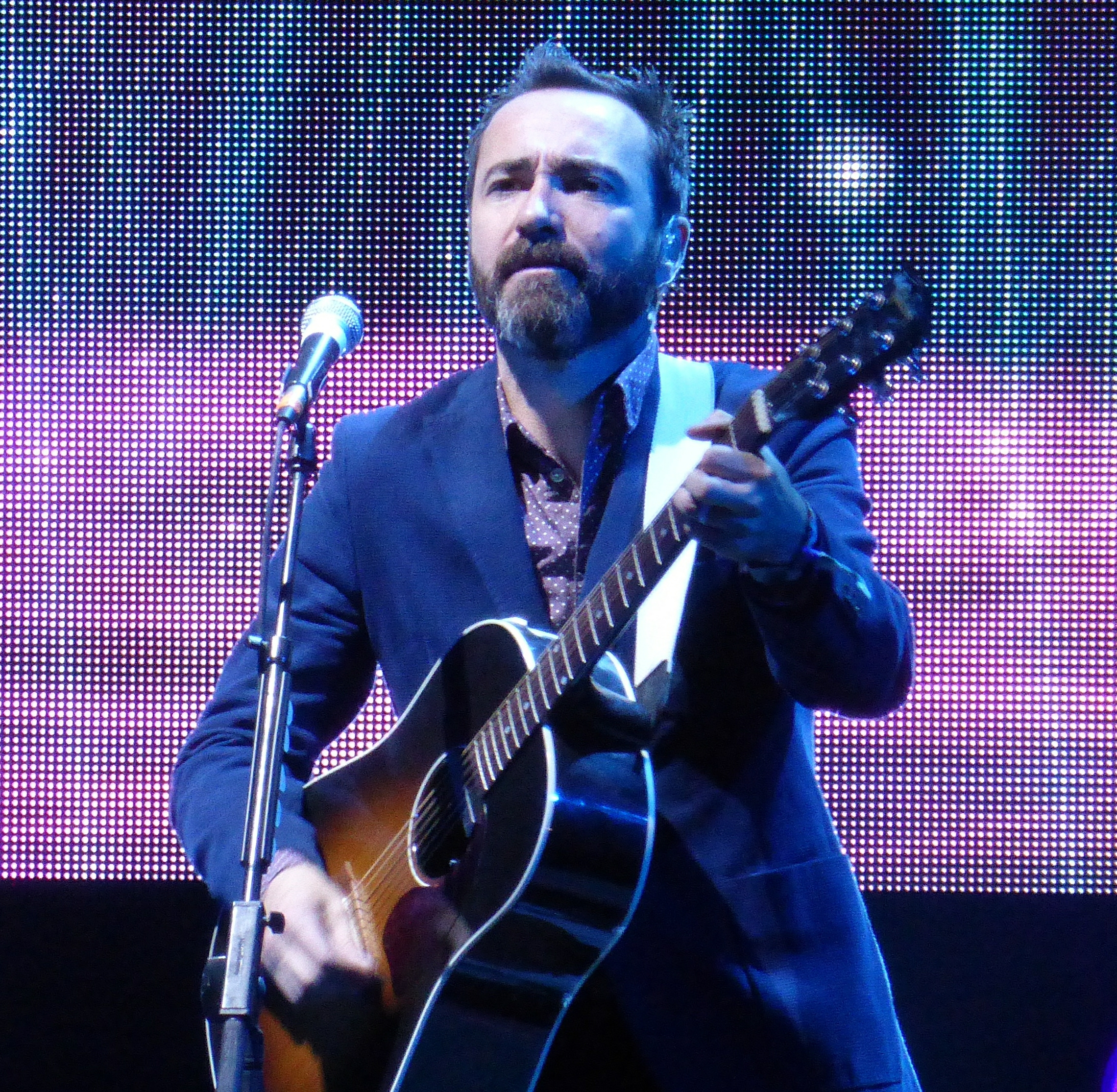 James Mercer, performing as part of Broken Bells (he is also in the Shins) at Coachella 2014